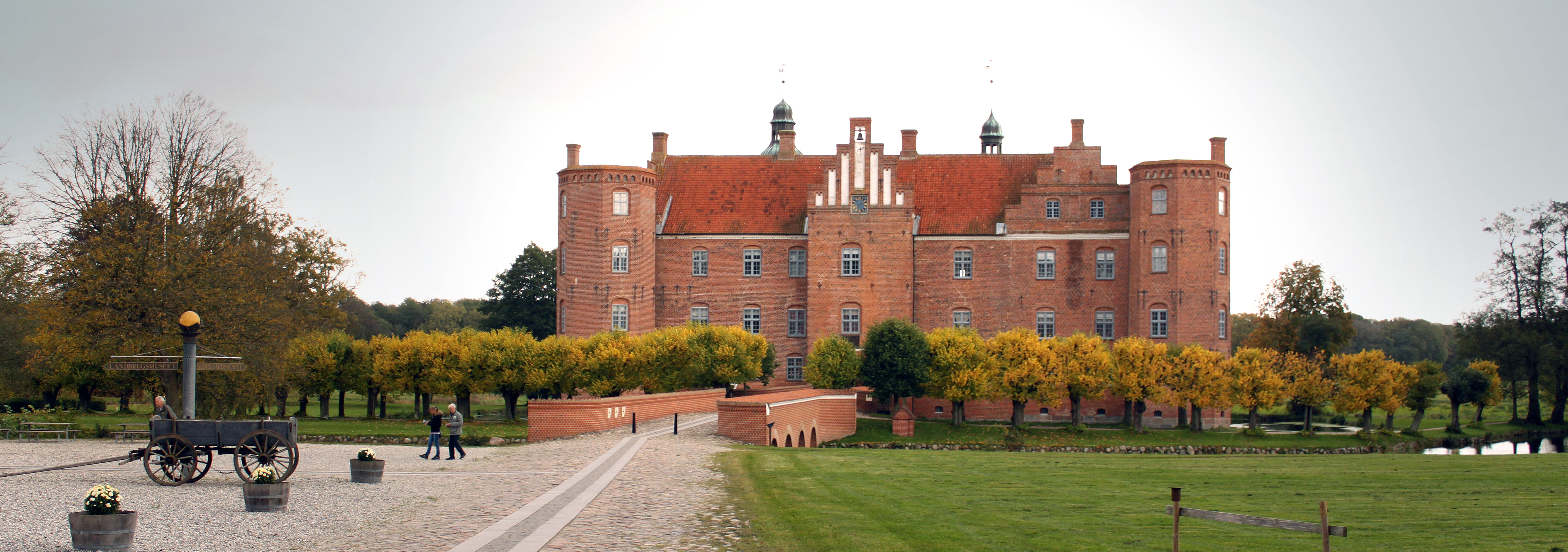 Gl. Estrup Manor, east of Randers, Denmark (October 17, 2012)